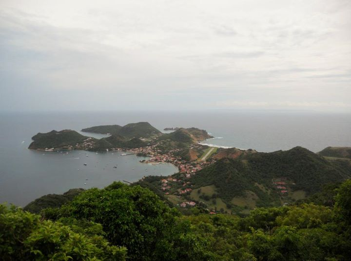 Terre-de-Haut island îles des Saintes archipelago French West Indies